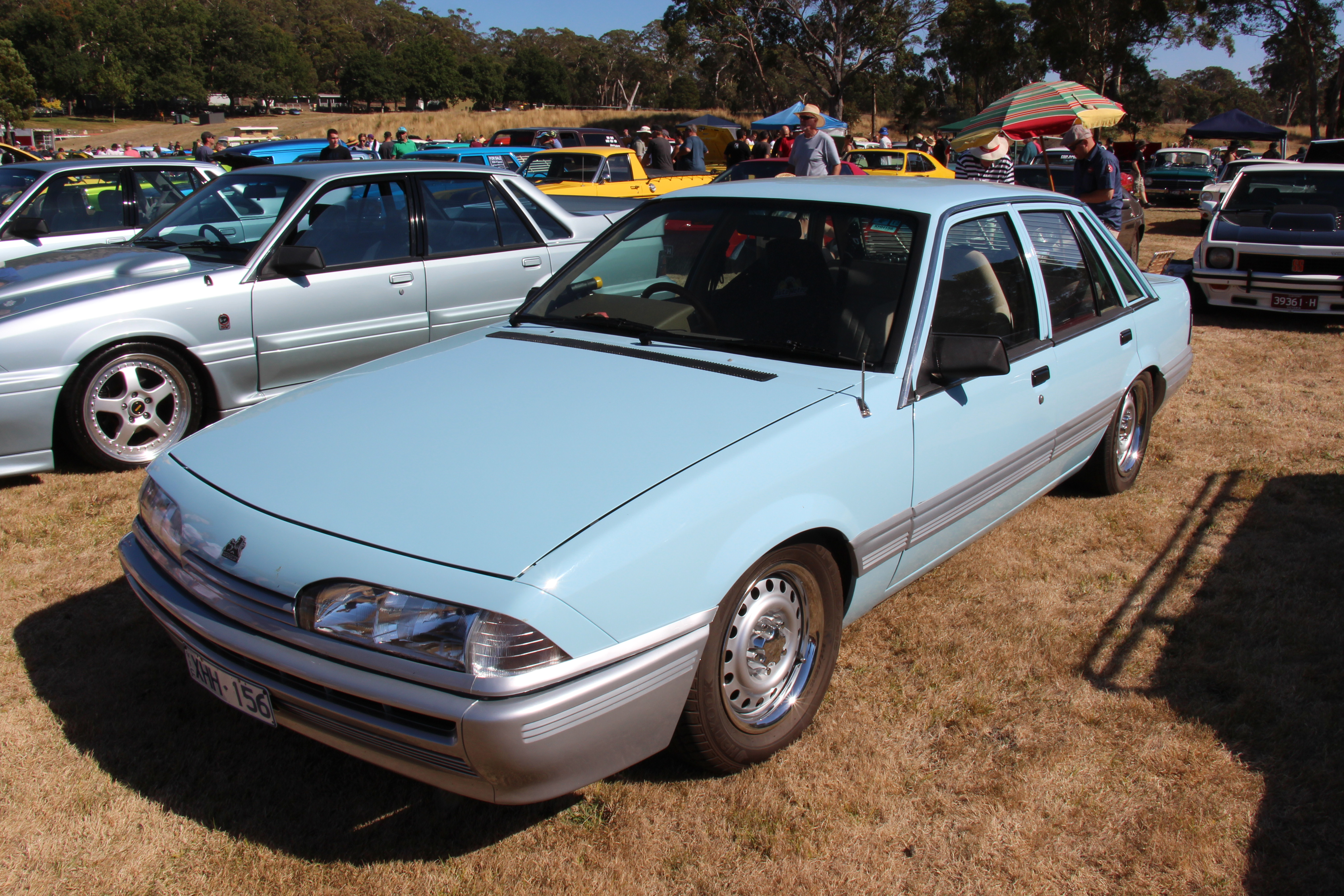 Built from Feb 1986-August 1988. The last facelift on the 1st generation Commodore, the lines were smoothed out, it got a subtle boot spoiler and newly shaped headlights (the Calais' were partially concealed). The old Holden 6 cylinder was gone, the Nissan RB30E engine was used in the VL. 6 months into its release a 150 kilowatts (200 hp) turbocharged RB30ET version of the Nissan engine was released. The engine received new pistons which lowered the compression ratio, while an updated camshaft was used to reduce overlap. The allure of the Commodore was quickly established particularly when the top speed was 200 kilometres per hour (124 mph) and then extended to 220 kilometres per hour (137 mph) with the addition of the Garret turbocharger. The Australian Police commissioned the turbocharged models as their interceptor Highway Pursuit cars of choice. These interceptors were denoted by BT1 in the model code on the Body